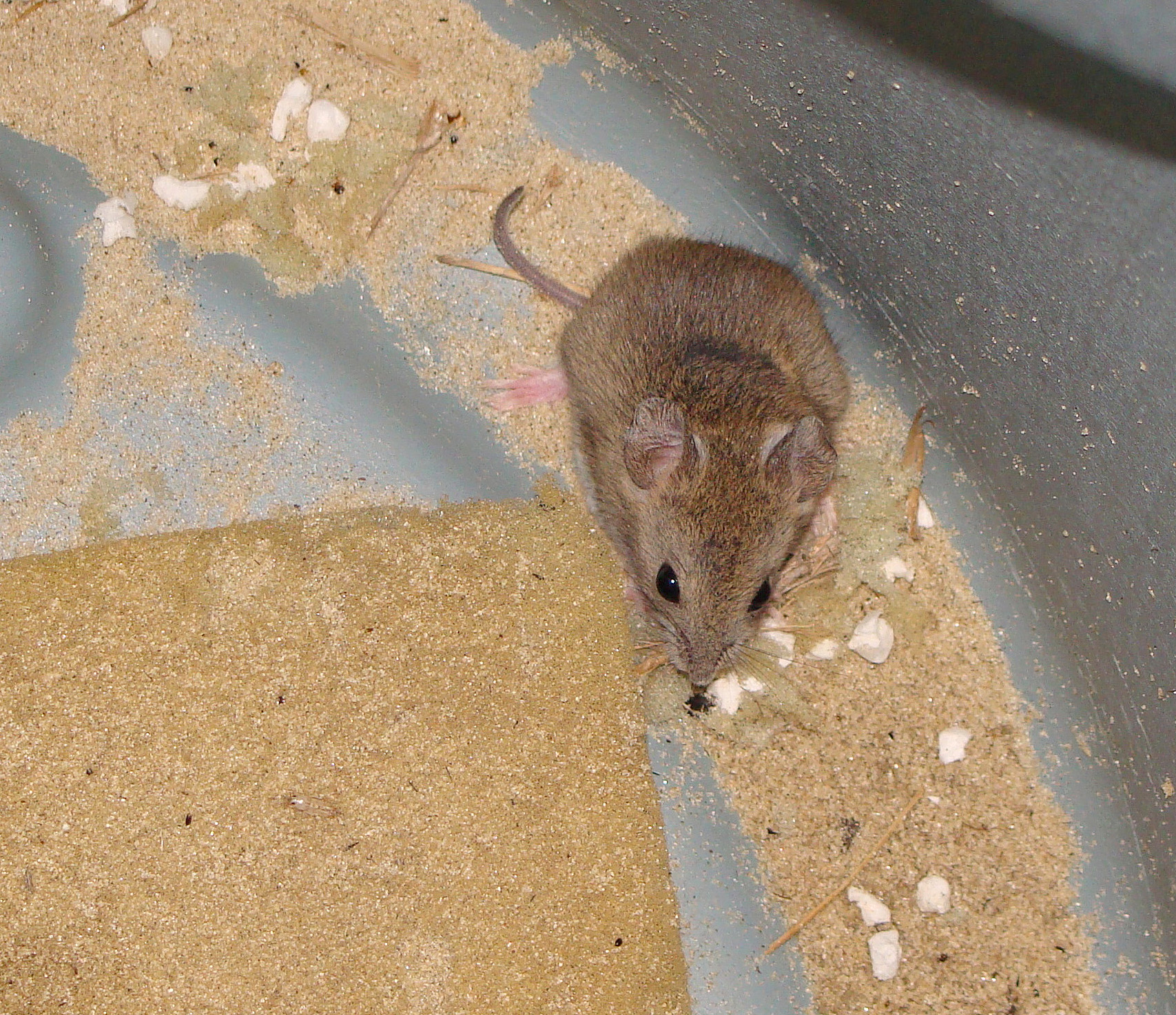 Calomys laucha photographed in Rio Grande do Sul, Brazil, in February 2010.